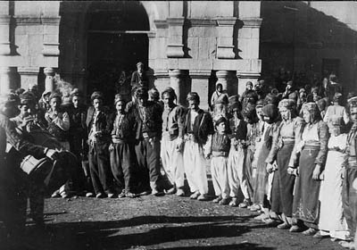 "National feast, dancers at St. Garabed (4-17th centuries, fully destroyed in 1915) "